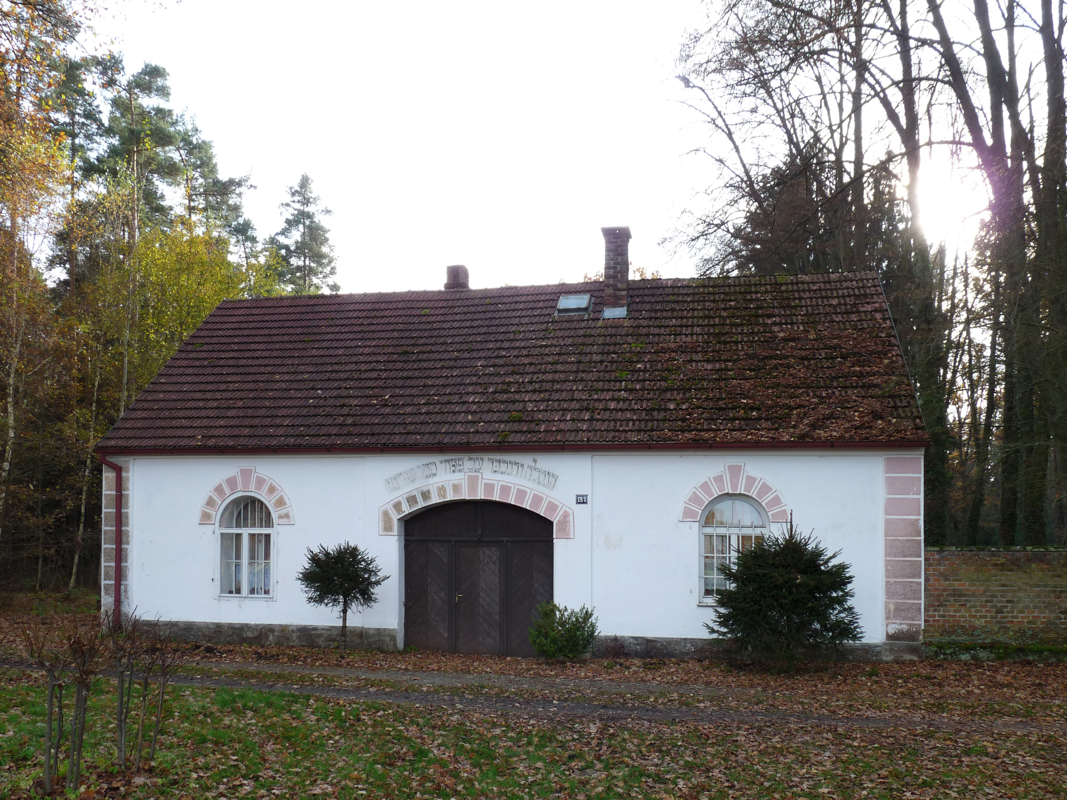 Jewish cemetery by the town of Třeboň, Jindřichův Hradec District, South Bohemian Region, Czech Republic.